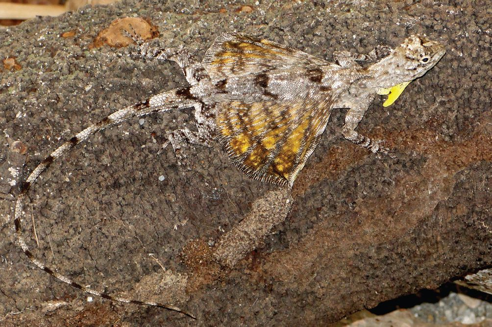 Draco timoriensis. Male from Wailakurini, Viqueque District.